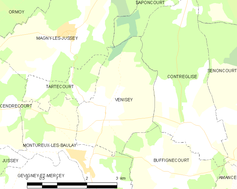 Map of French municipality